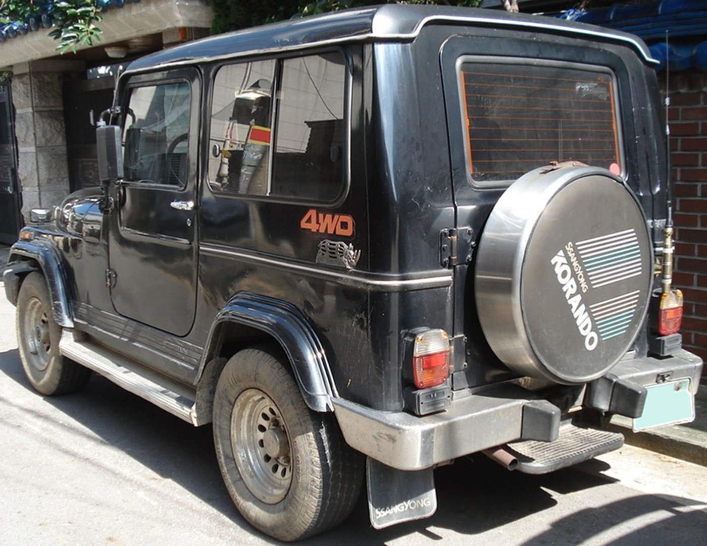 SsangYong Korando